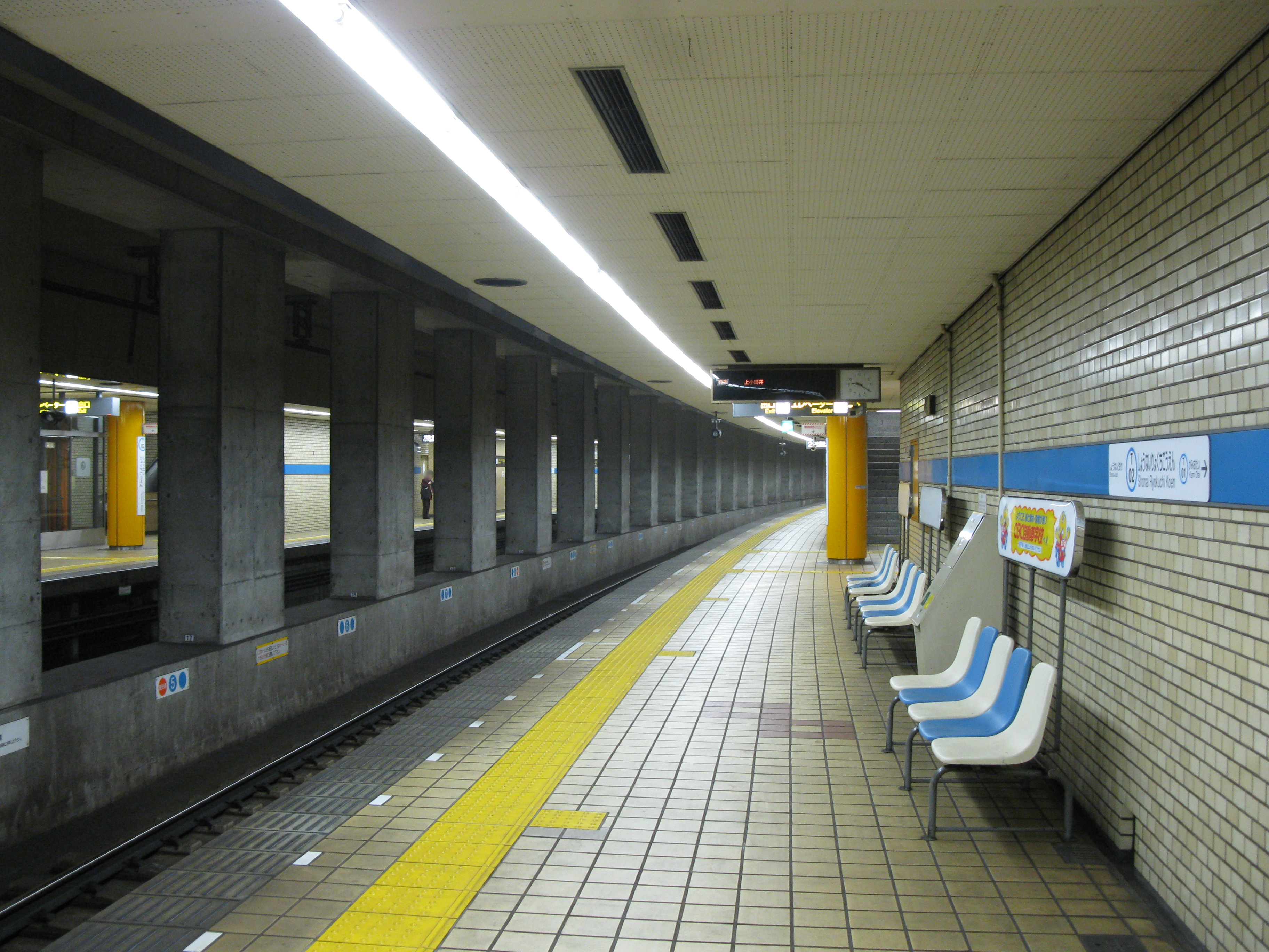 Shōnai Ryokuchi Kōen Station platform (Nagoya Municipal Subway Tsurumai Line)